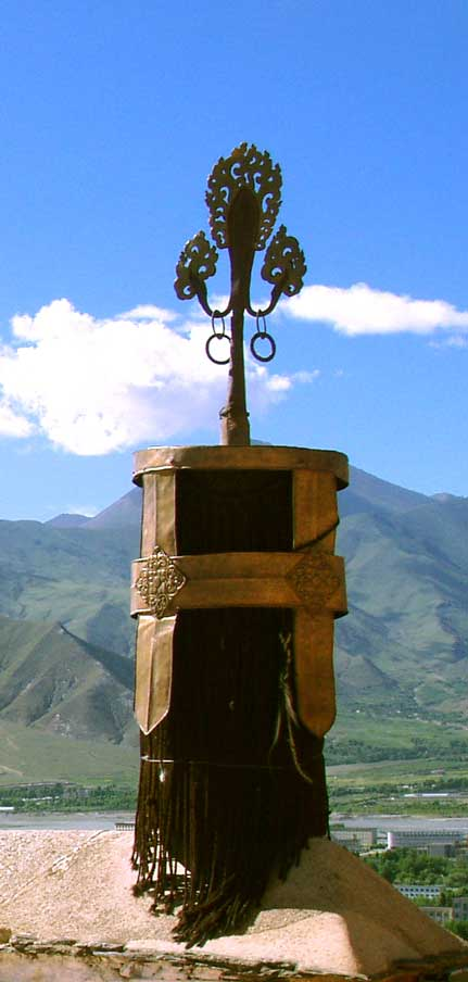 Author: Kosi Gramatikoff, photography: Phill (Xiaolei Yuan, Windsor, Ontario) (Tibet 2005), Dhvaja (Victory banner) - trident design with black silk, Roof of the Potala White Palace.